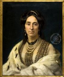 Portrait of Giovanna Bertie Mathew, wife of italian general Alfonso La Marmora (1804-1878)